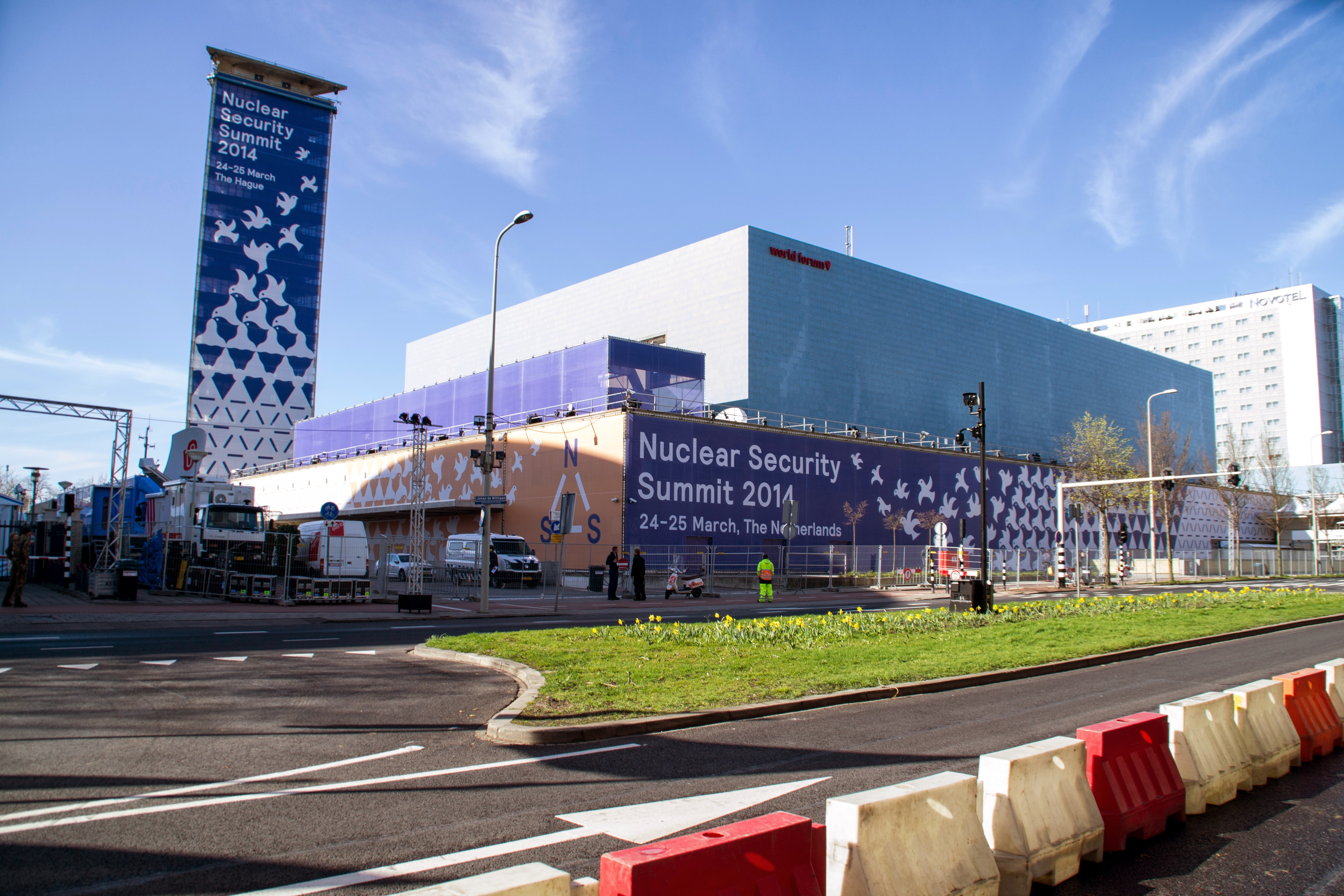 The World Forum Convention Center during the 2014 Nuclear Security Summit.